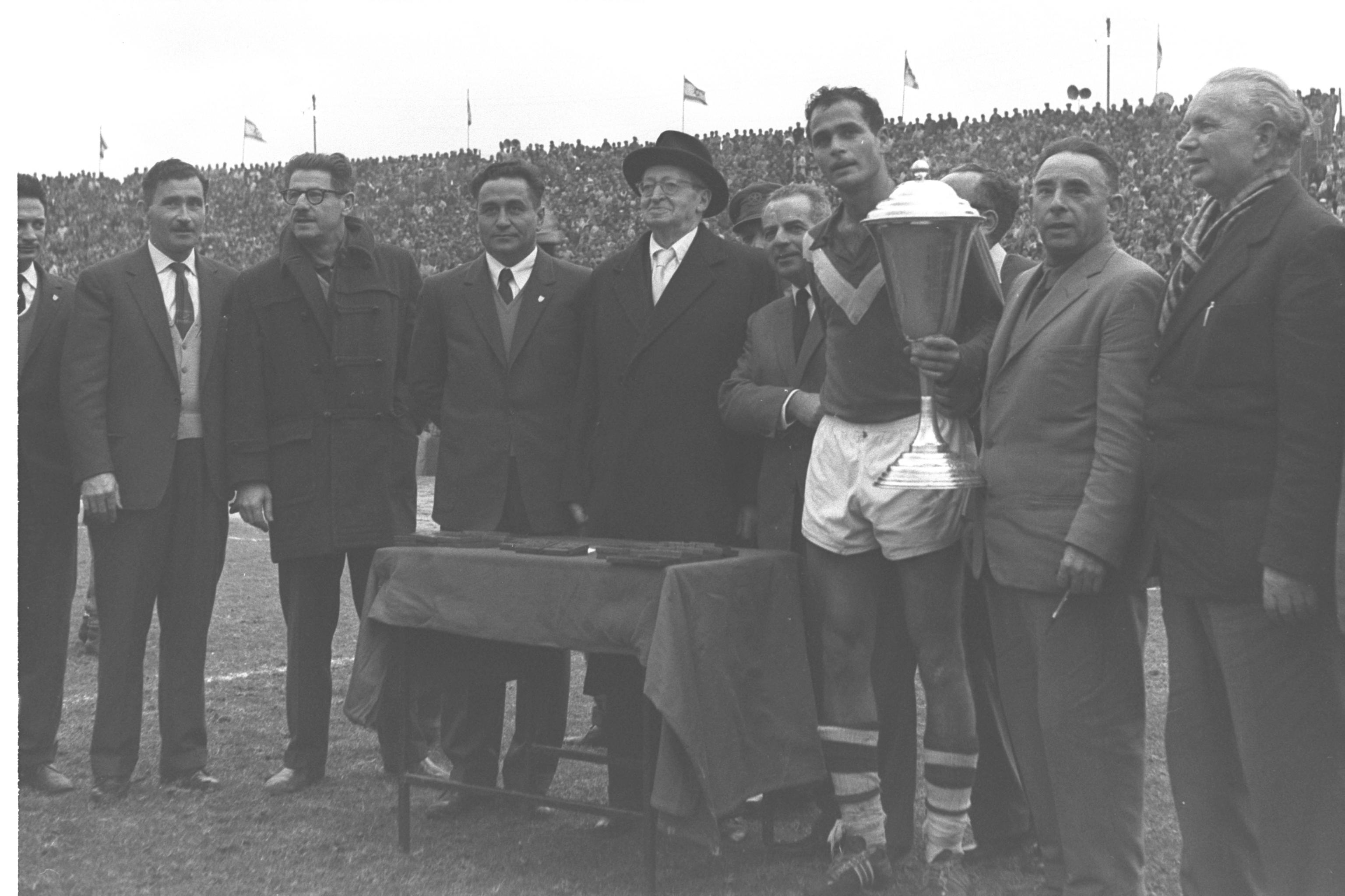 Hapoel Tel Aviv wins the Israeli Football Association Cup, 1961.